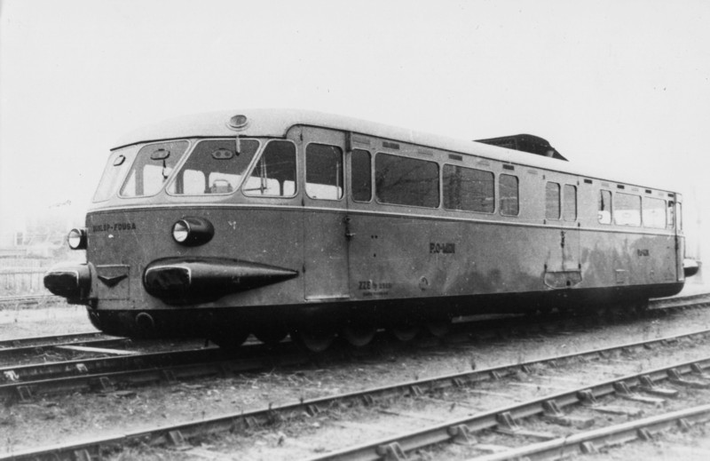 Railcar Dunlop-Fouga, PO-Midi ZZEty 23651, later SNCF FO1001; 90 km/h, 22 t, 17.12 m 150 hp 49 pl.